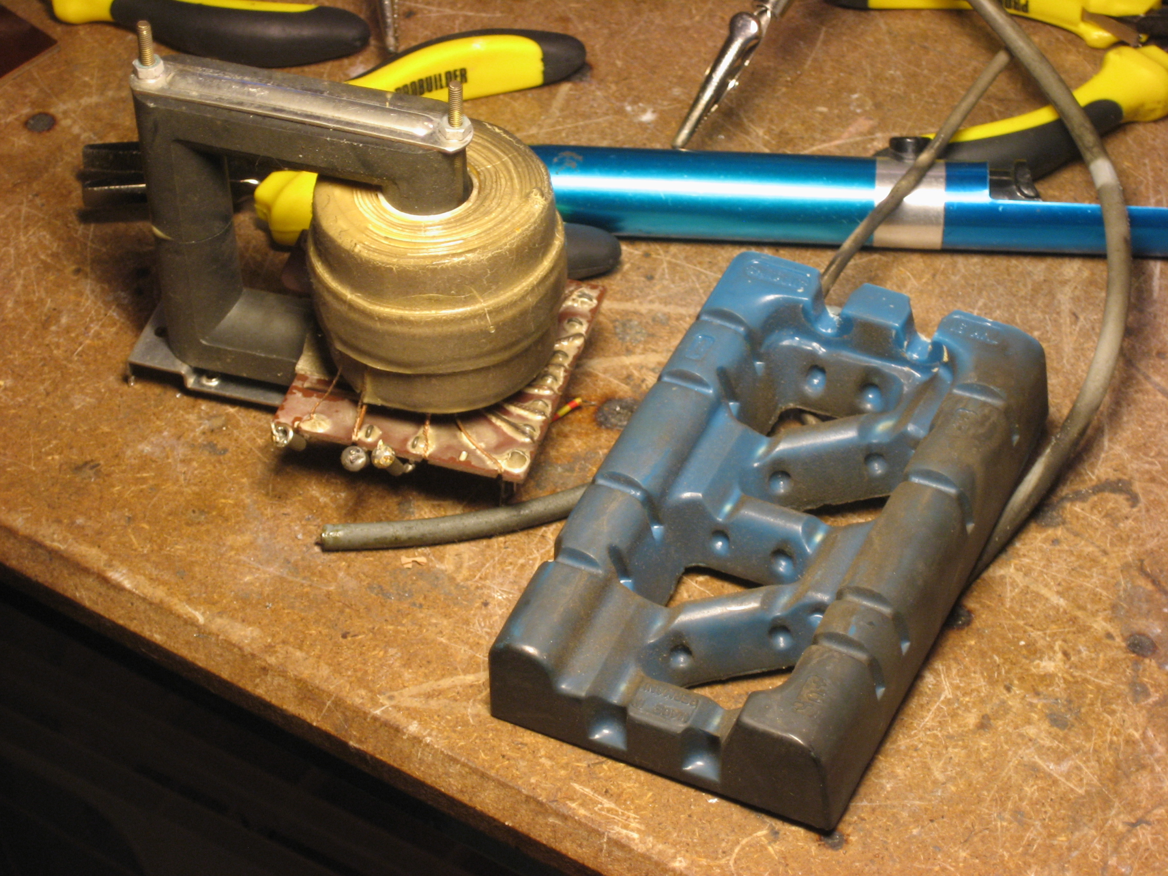 Old television's flyback transformer and a cascade